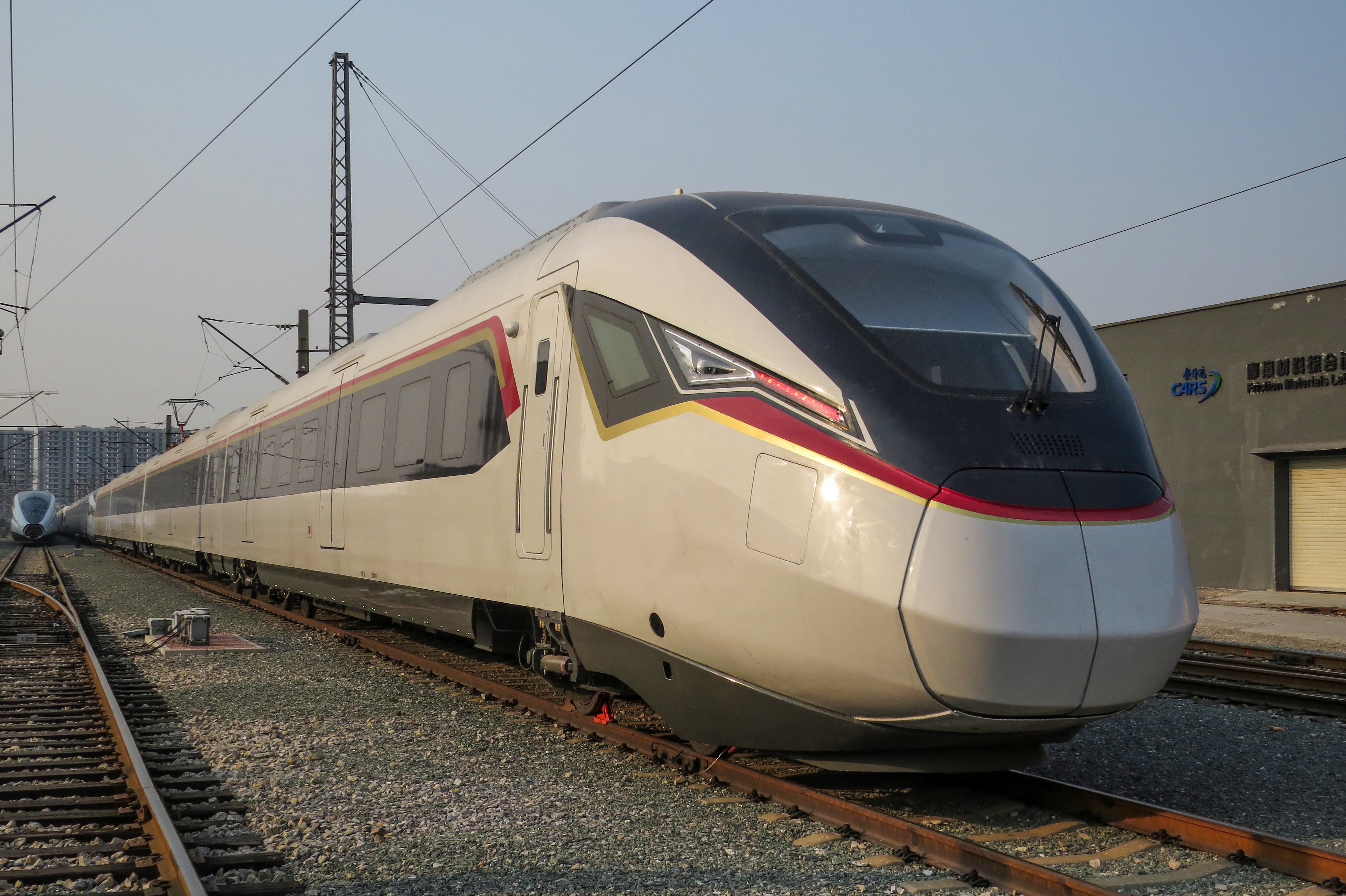 Can this Tianxin-built beauty be used outside Hunan? Just wait.